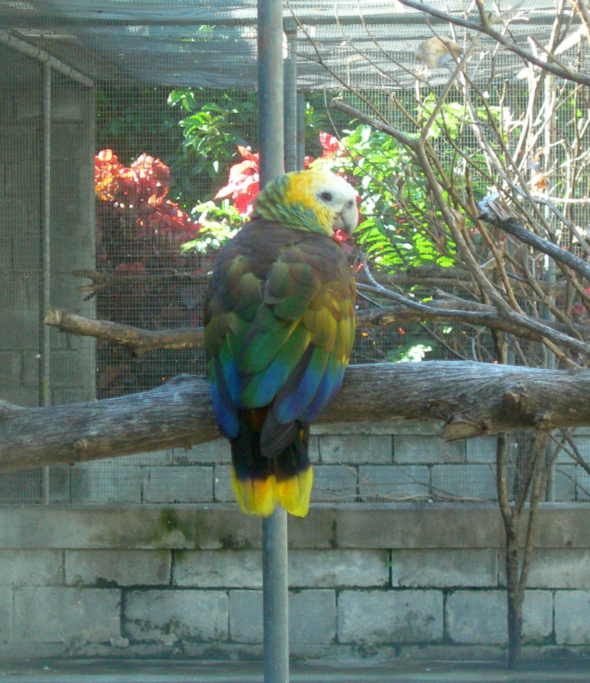 A St Vincent Amazon in the rehabilitation and breeding centre in the Botanical Gardens, Kingstown, on the island of Saint Vincent.